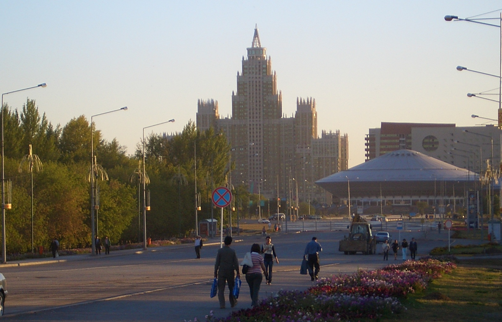 "Triumph of Astana", a new Stalinist-style high-rise building in the new Kazakh capital.